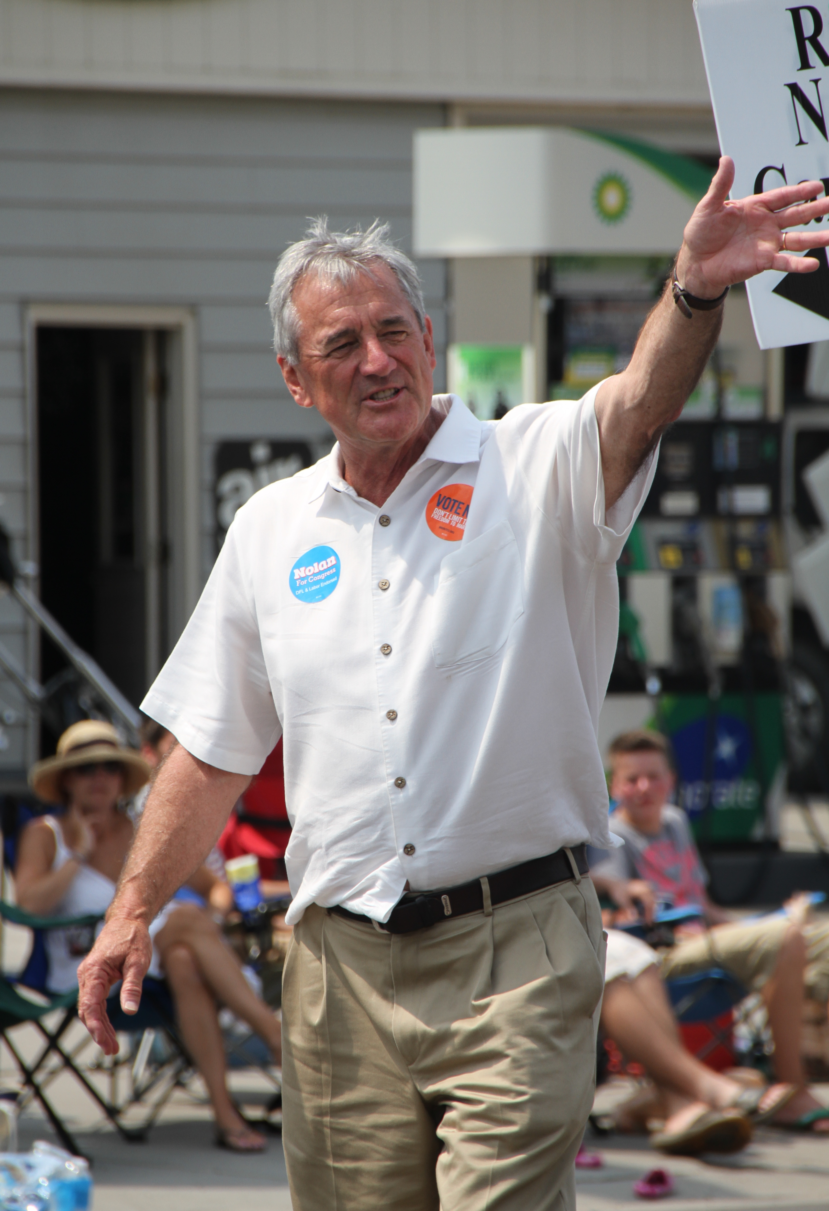 Rick Nolan, celebrating 4th of July in Tower, Minnesota in 2012. He was then again candidate for the US Congress, to which he was elected that same year.